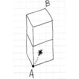 Kotan's Ant Problem (mathematical puzzle)